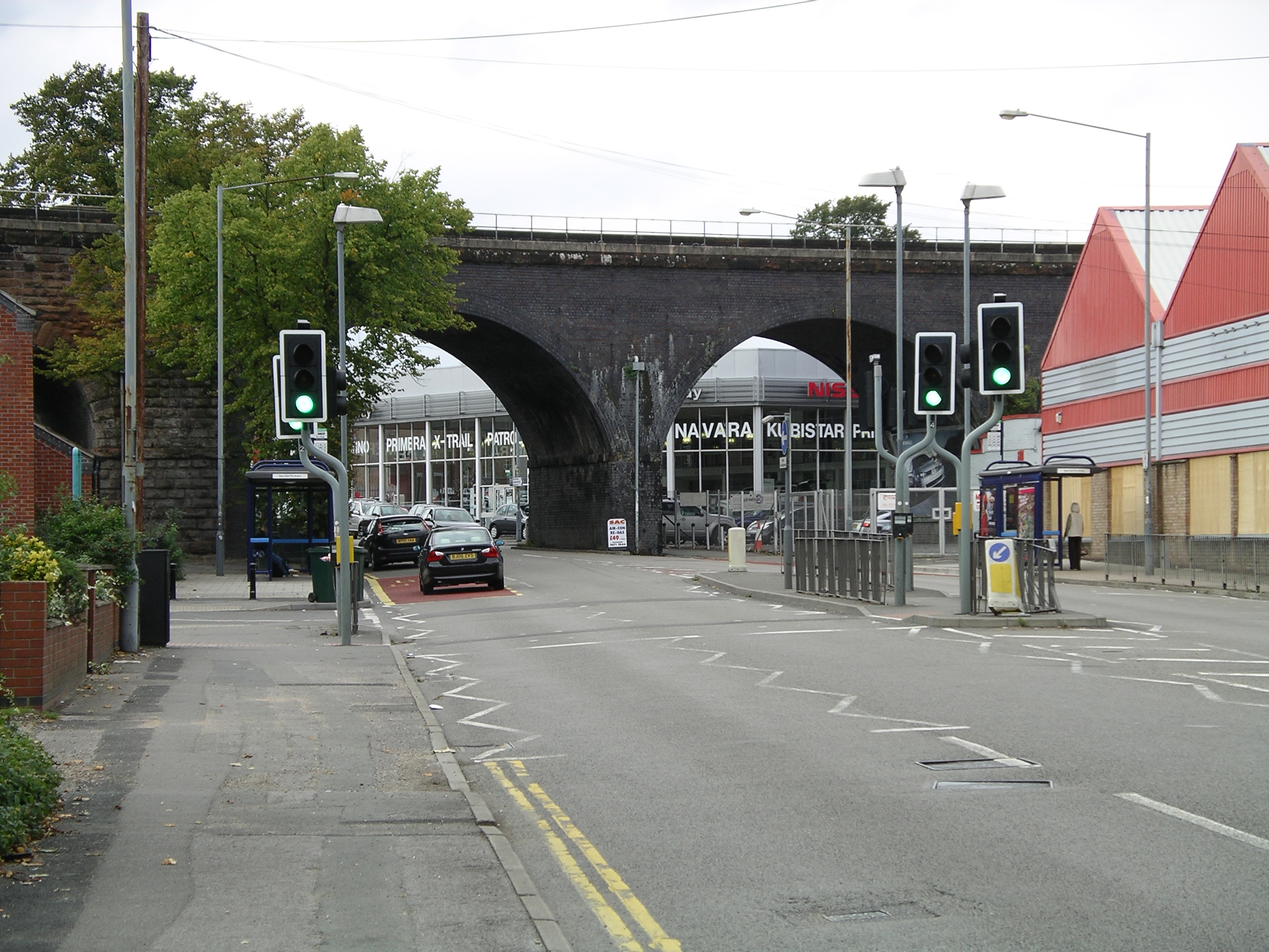 Photo taken on 27 September 2006 of the railway bridge in Spon End, Coventry, England.